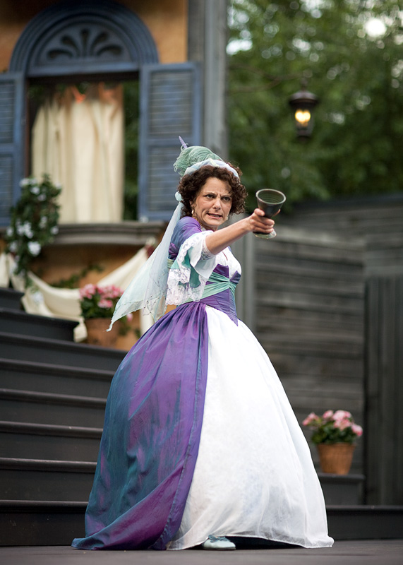 Tracy Michelle Arnold as Beatrice in the play Much Ado About Nothing at American Players Theater in Spring Green, Wisconsin.